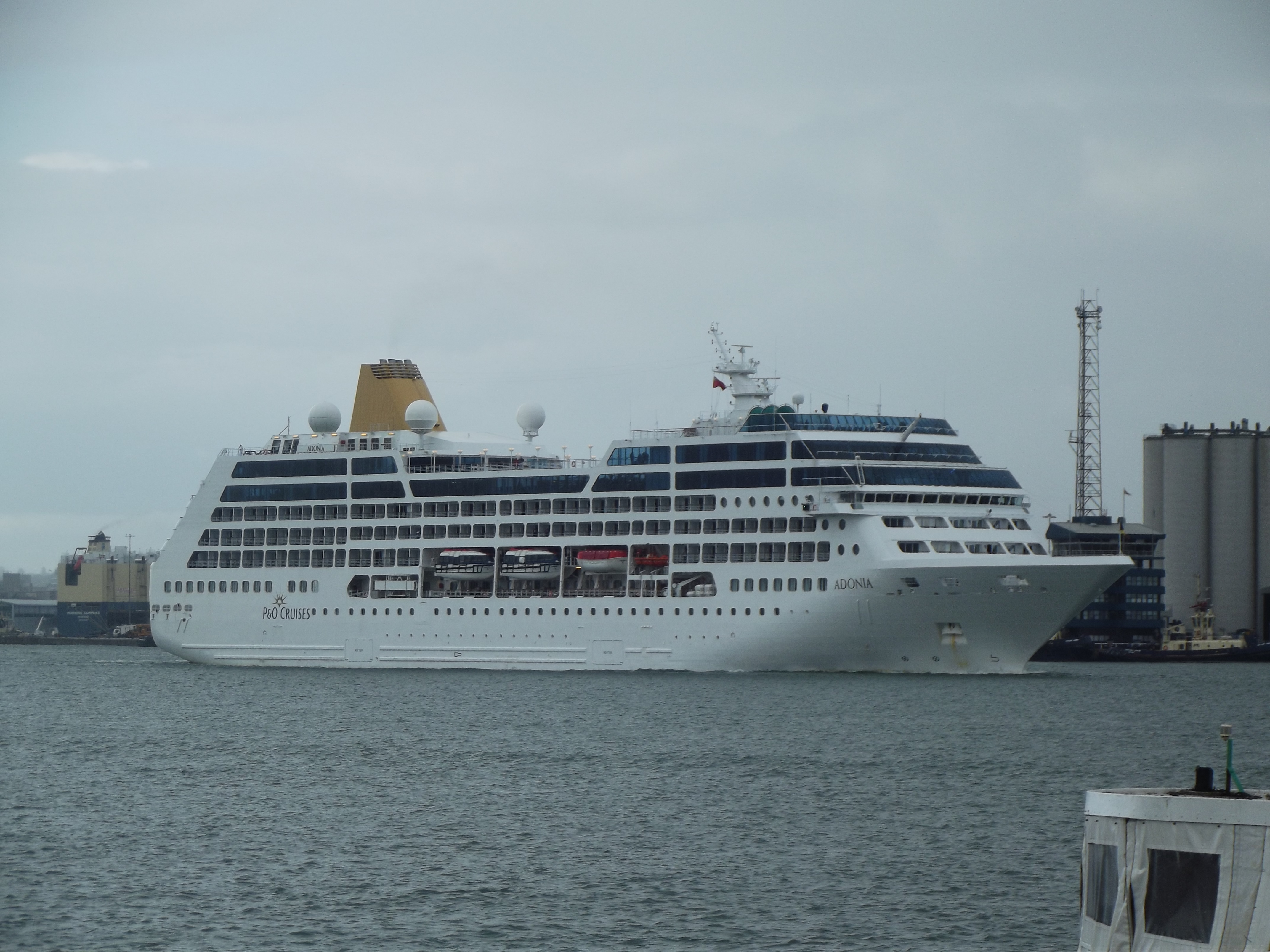 MV Adonia departing Southampton.